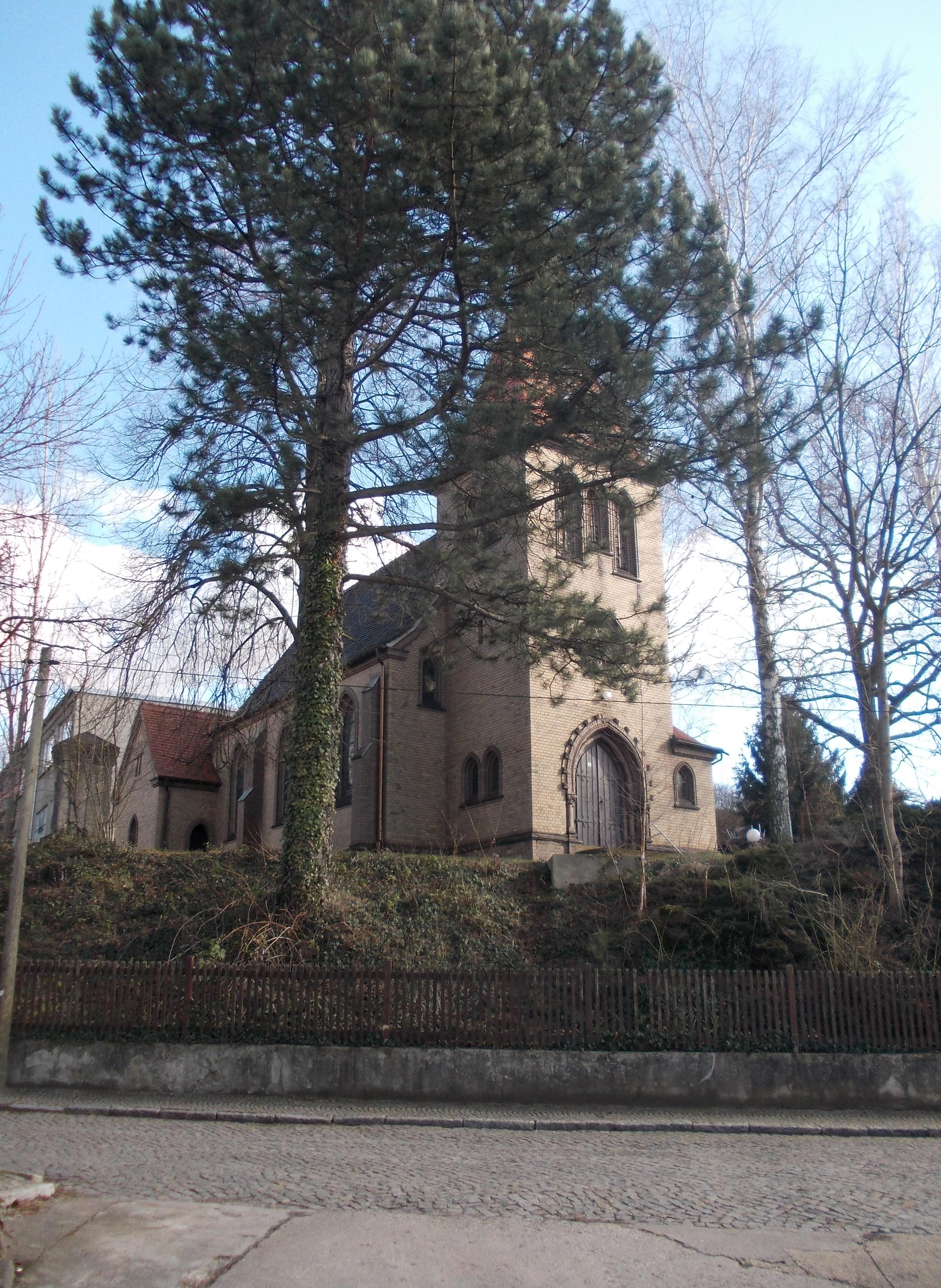 Deuben church (Teuchern, district: Burgenlandkreis, Saxony-Anhalt)